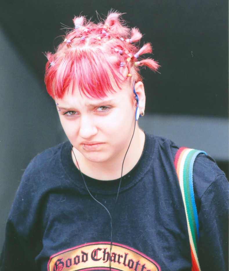 Pink Hair . Waterfront Mall subway . SW WDC . Thursday, 7 July 2005PinkHair1.SW.WDC.7jul05